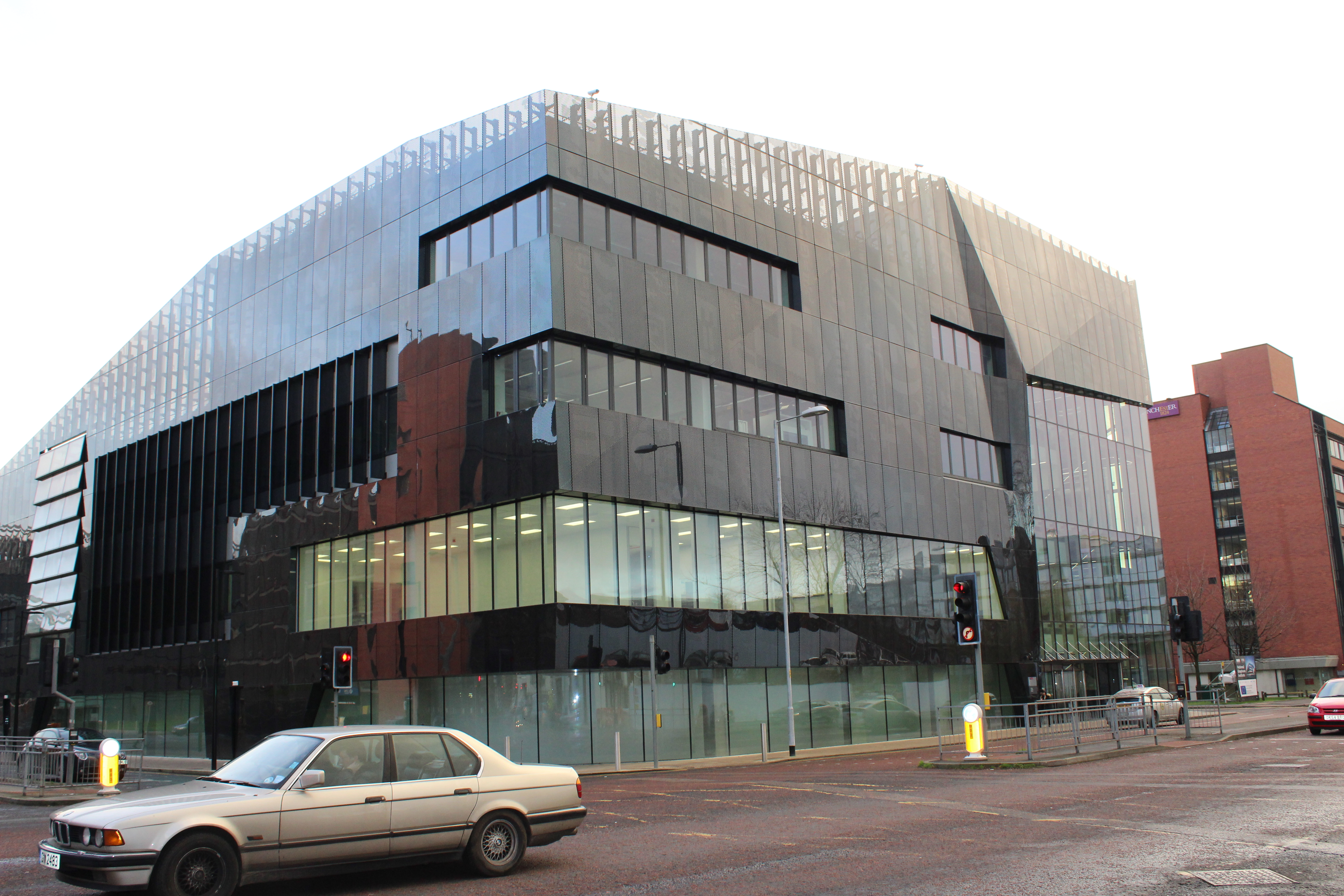 Image of the completed National Graphene Institute